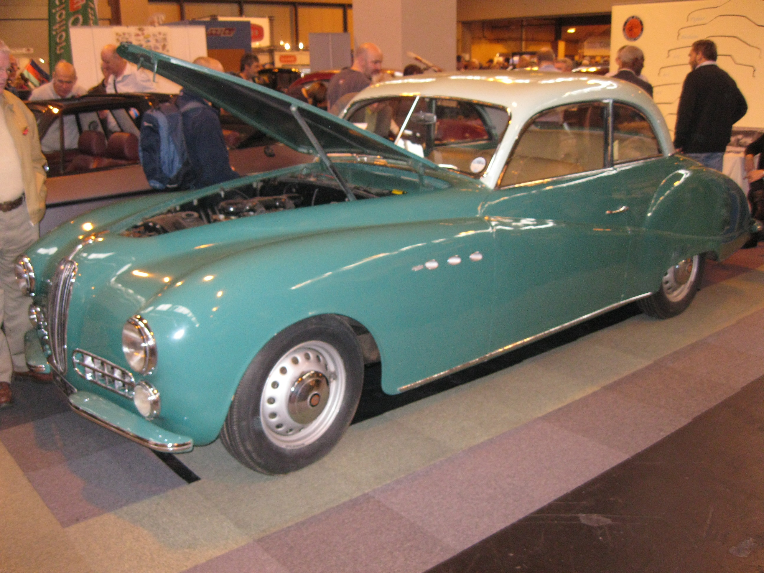 Rare Swiss Coachbuilt Bristol. Spotted at the Birmingham NEC Classic Car Show, November 2011.